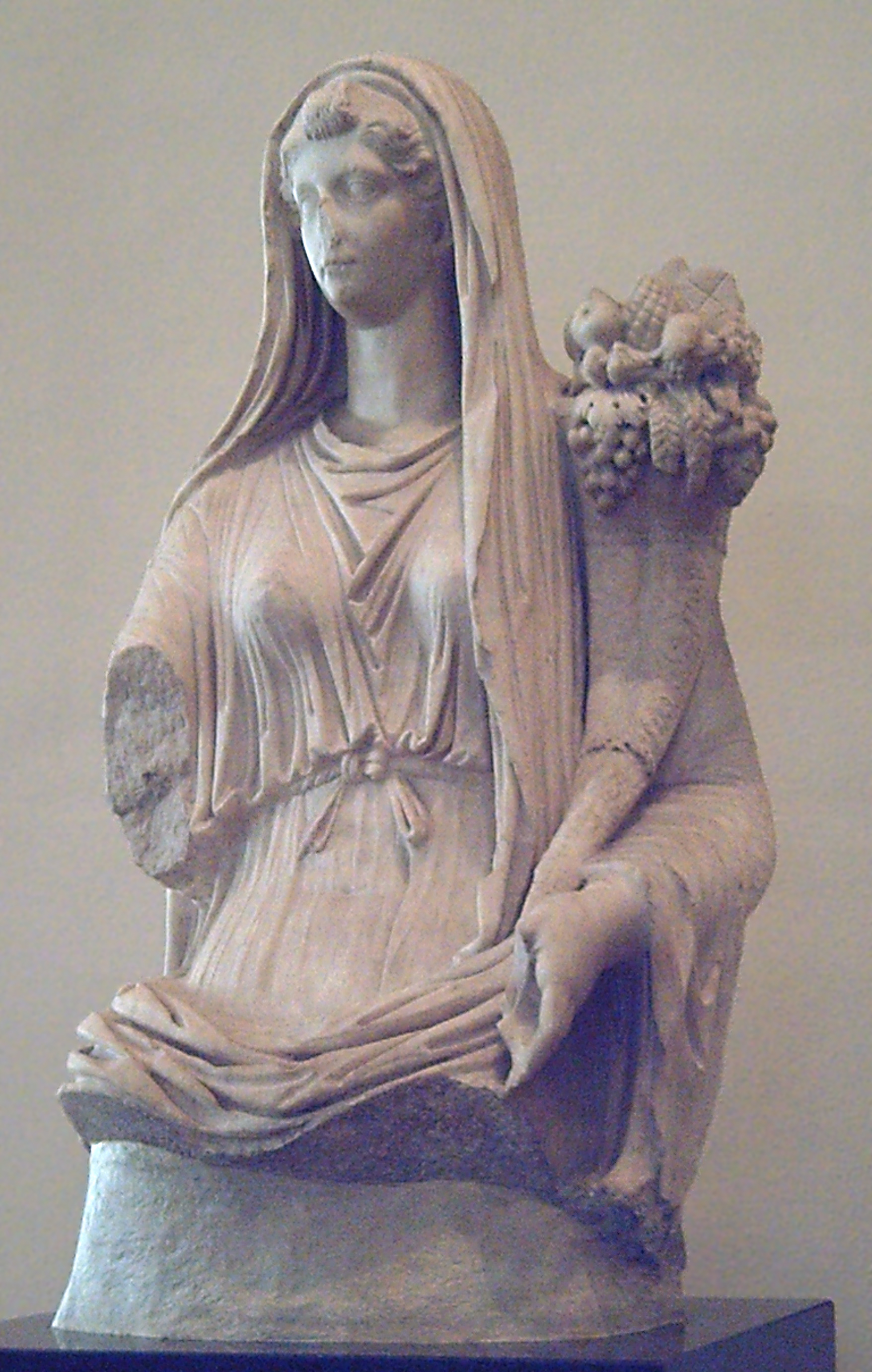 Statue of Livia Drusilla (58 BC–29 CE) depicted as goddess Ceres, a very venerated deity in the Baetica province.